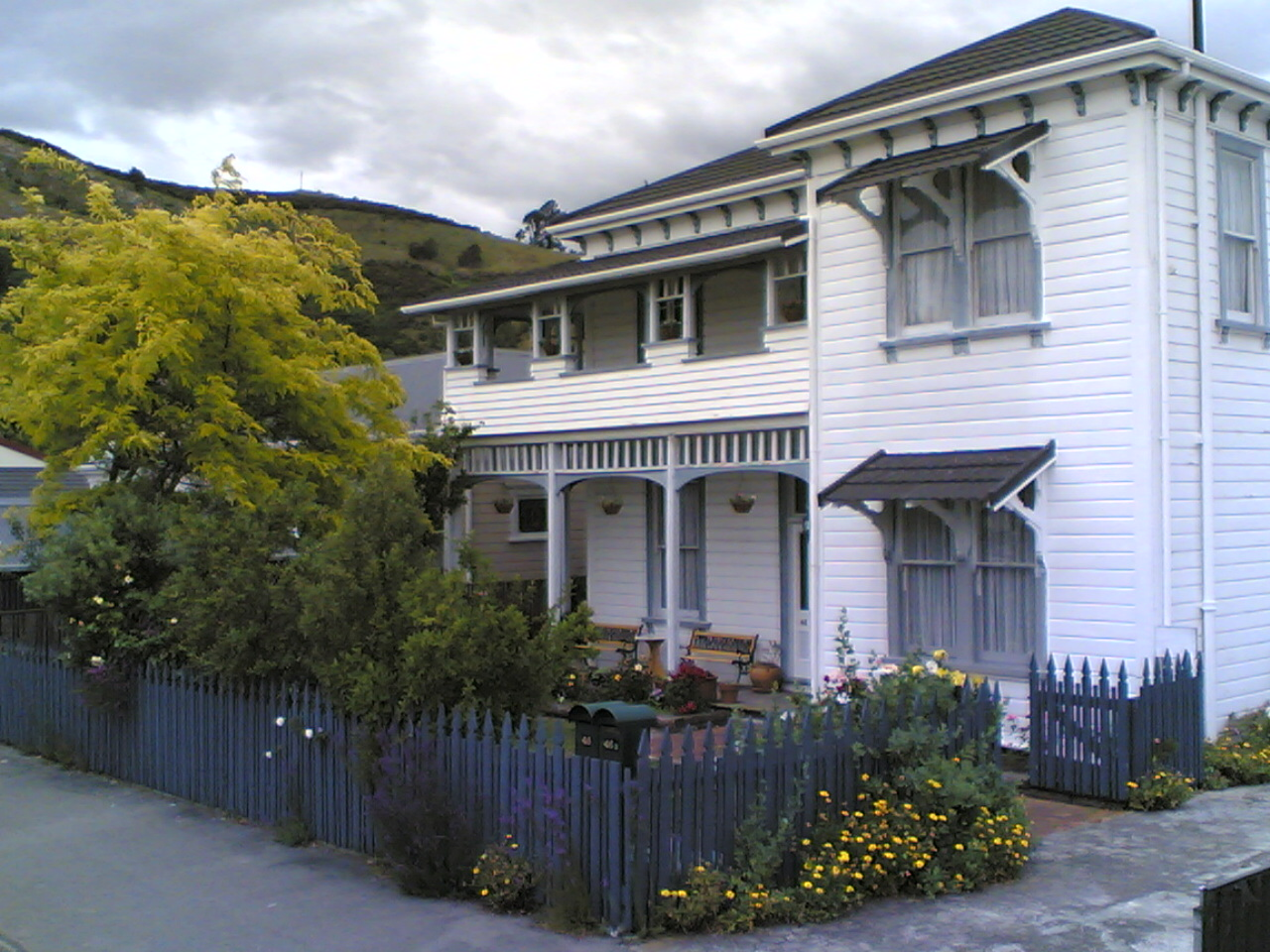 1897 Amber House in Nelson, New Zealand has the oldest English Walnut tree in the South Island and a brick chimney that survived at least 3 major local Earthquakes intact. Amber House also preserves Victorian wallpaper and was formerly part of Cabragh House School.